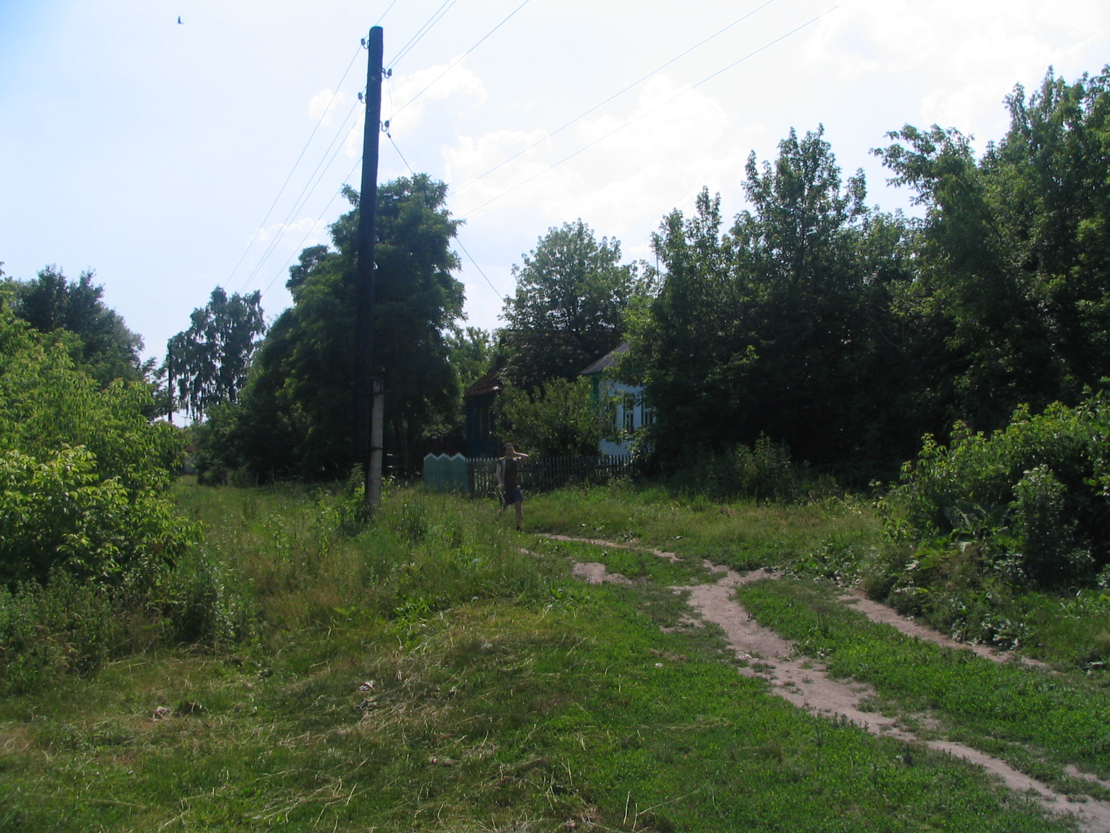 Bupel village in Khomutovsky rajon, Kurskaya oblast